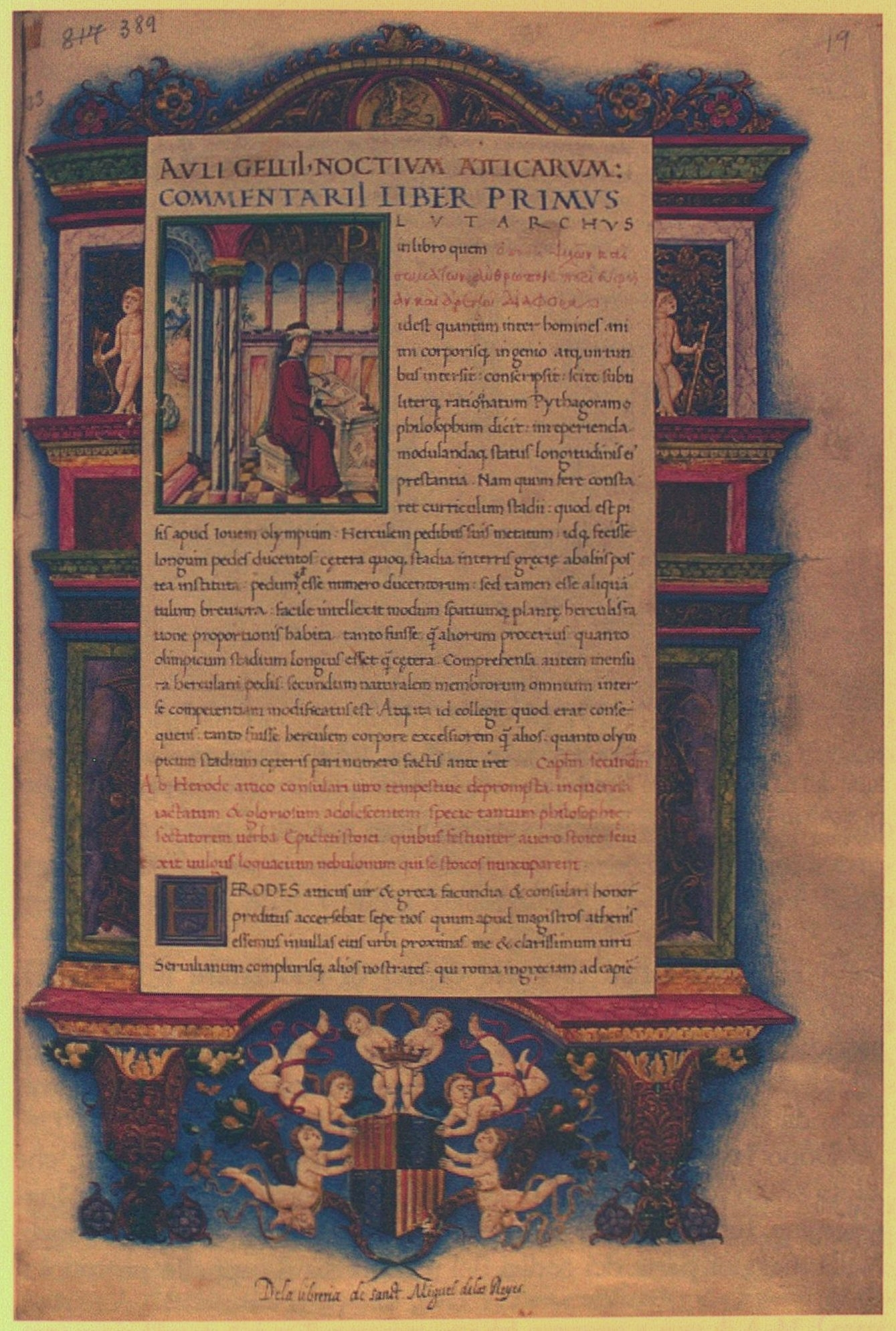 The beginning of the “Noctes Atticae” in the manuscript Valencia, Biblioteca historica de la universidad, Ms. 389, fol 19r. Book illumination by Nardo Rapicano.